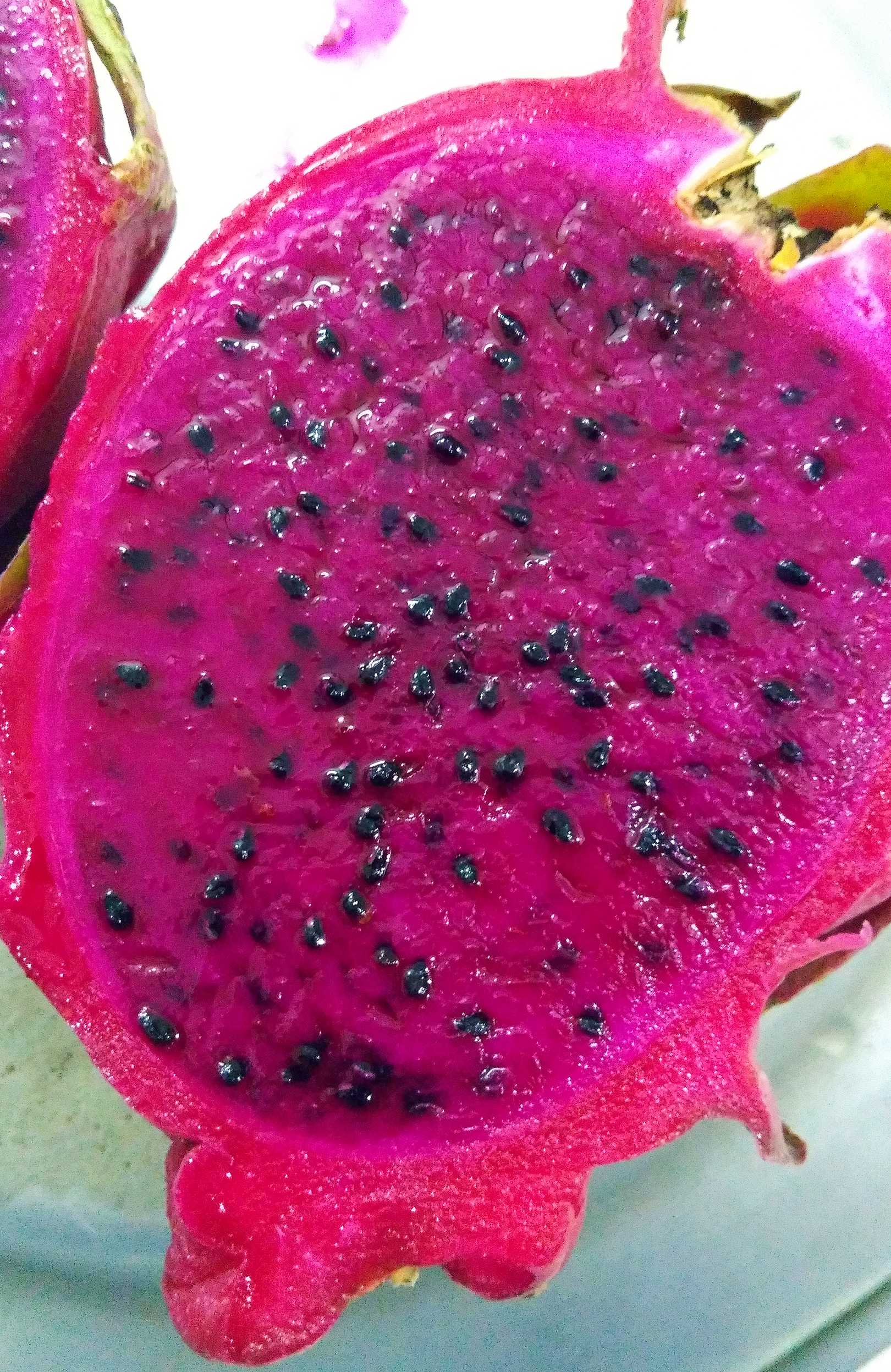 A pitaya fruit cut in half.